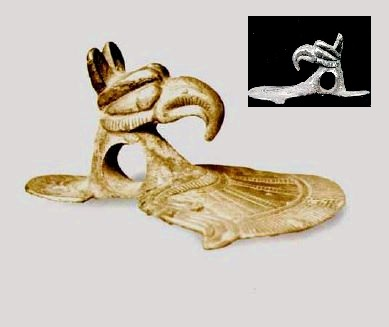 Chelnik OS